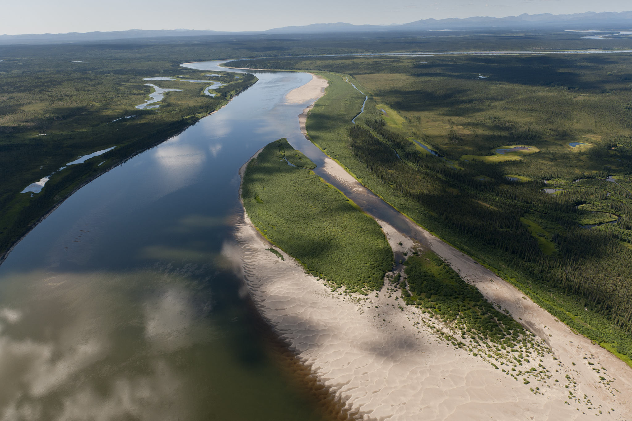 (NPS Photo by Neal Herbert)